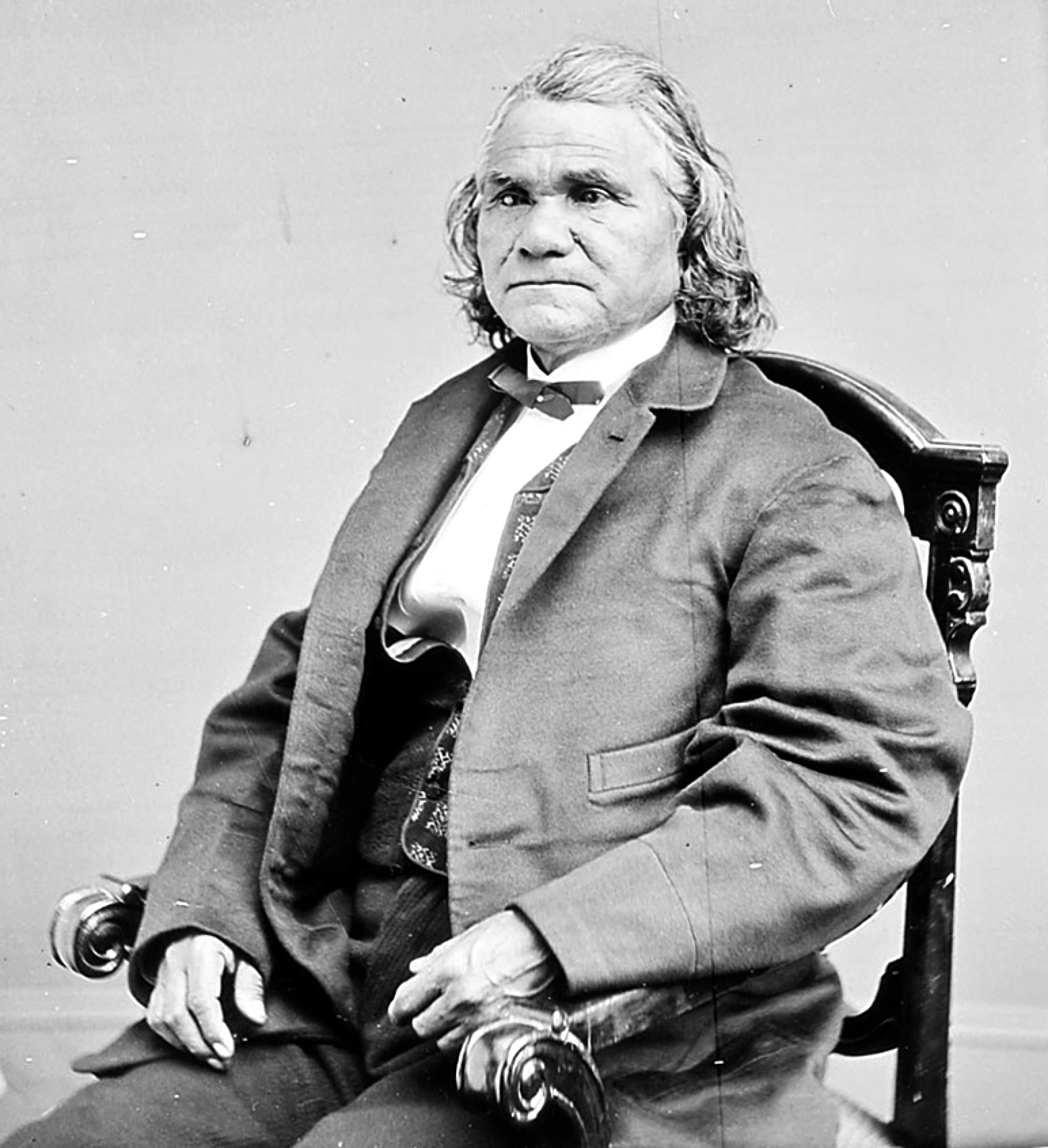 Isaac Stand Watie Degataga. Note: The Cherokee chief Stand Watie was the last Confederate general to surrender in the Civil War.